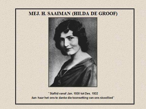 Hilda de Groof Toonsetter